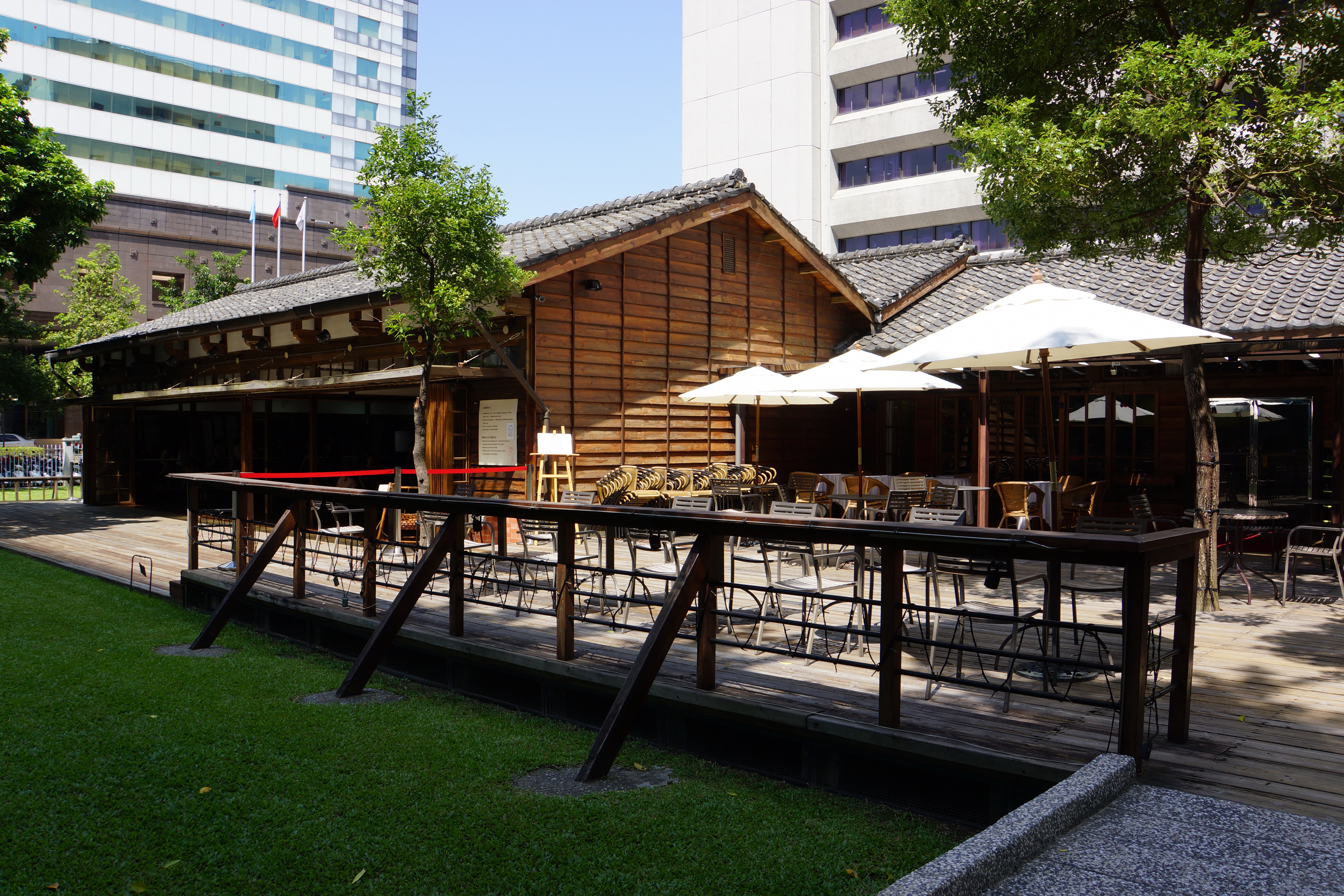 Dance Café, Tsai Jui-yueh Dance Institute.